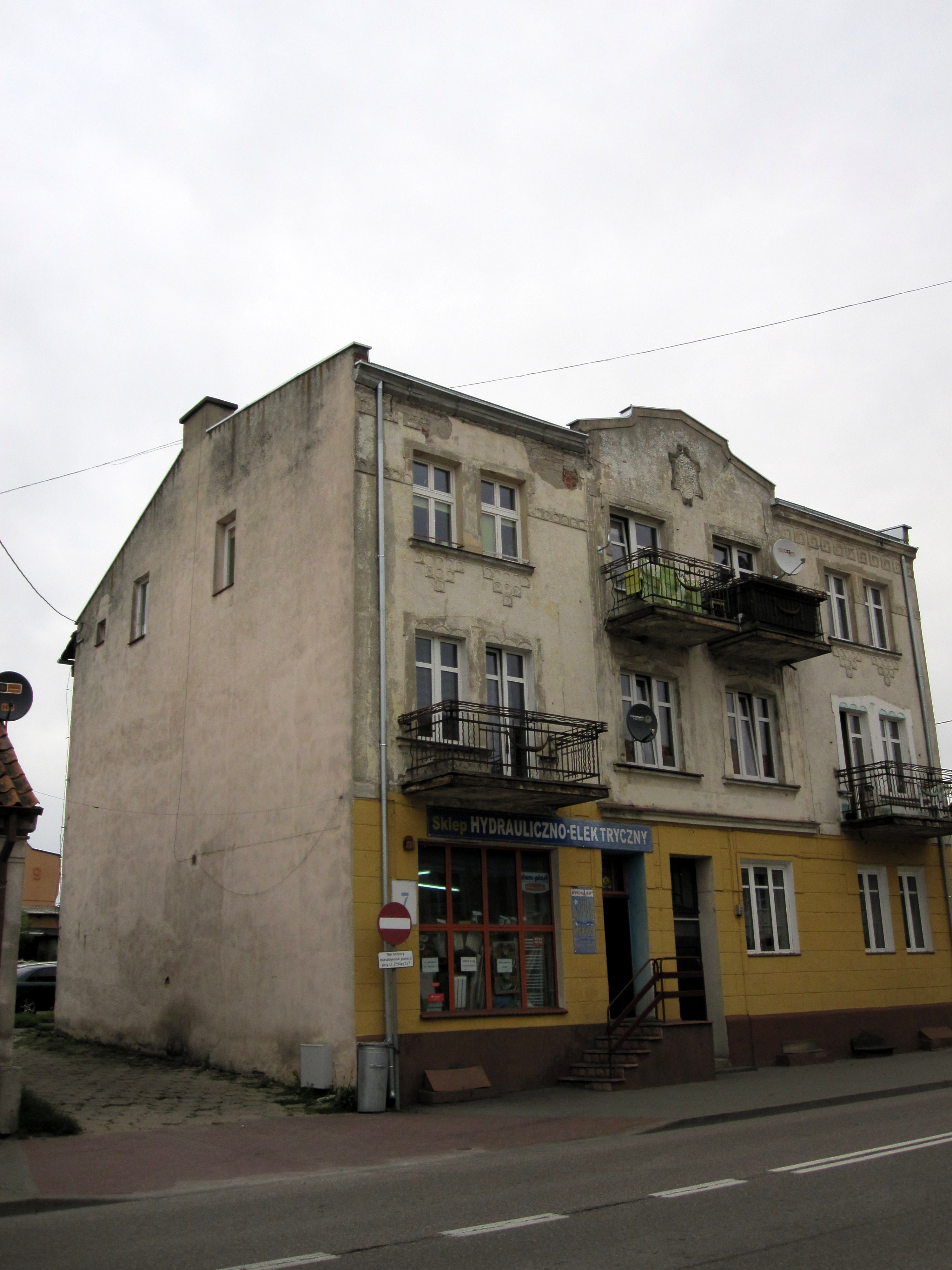 Building on 7 Ełcka street in Orzysz